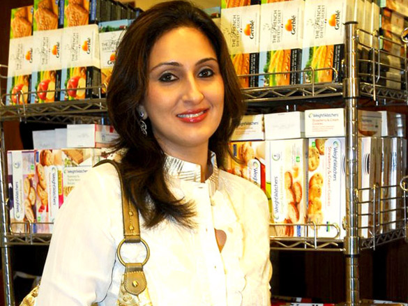 Juhi Babbar at Diana Hayden and others grace Nature's Basket store launch